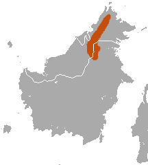 Borneo Fruit Bat (Aethalops aequalis) range